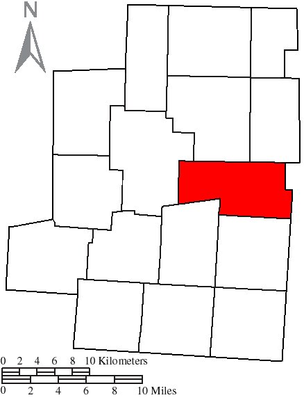 Originally created by the US Census. Modified by myself to highlight the township.